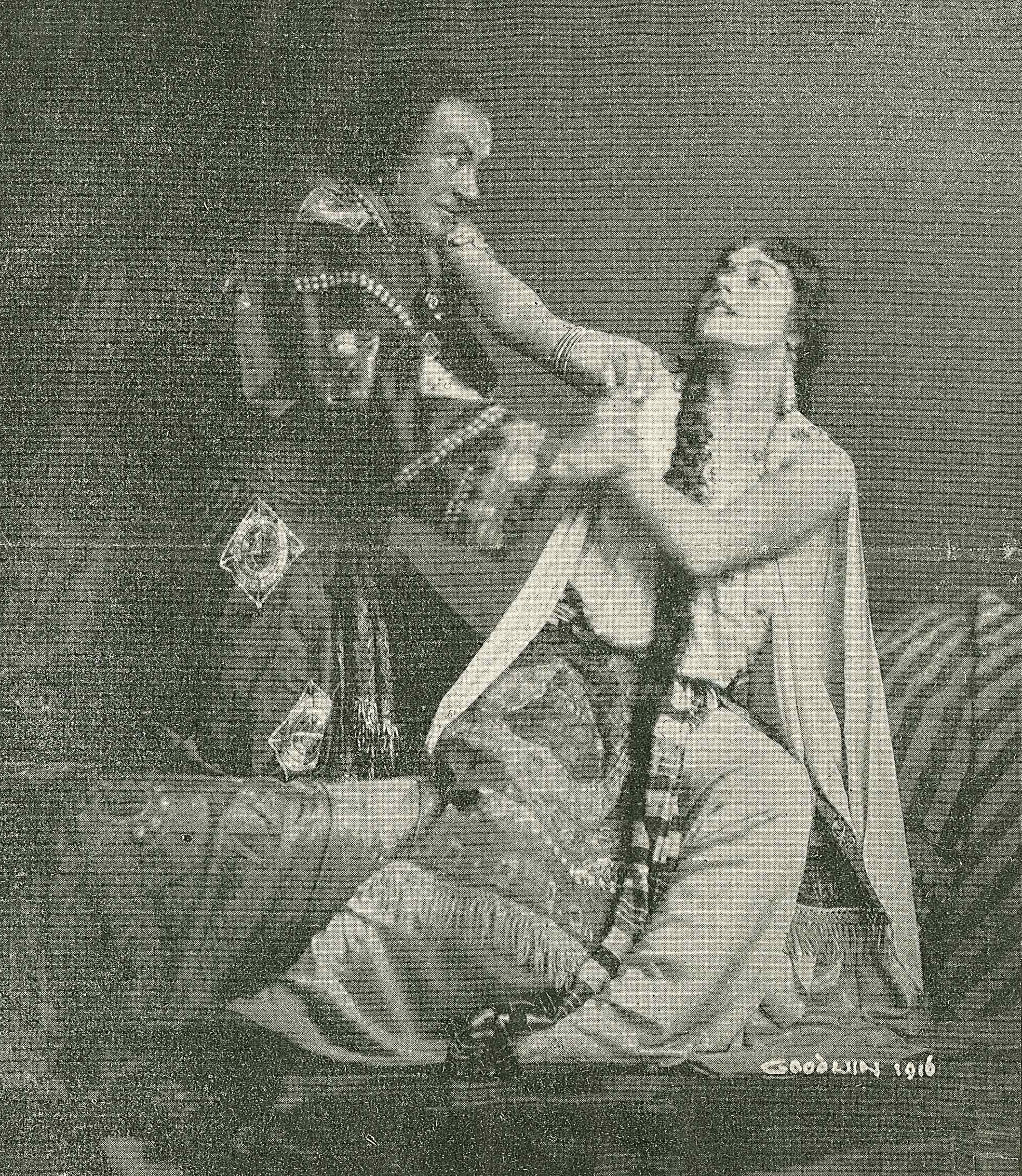 Swedish actors Ivan Hedqvist and Signe Kolthoff in the play Judith at the Royal Dramatic Theatre (Dramaten) in Stockholm.